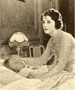 Still from the American film The Better Wife (1919) with Clara Kimball Young, page 783 of the July 19, 1919 Motion Picture News.